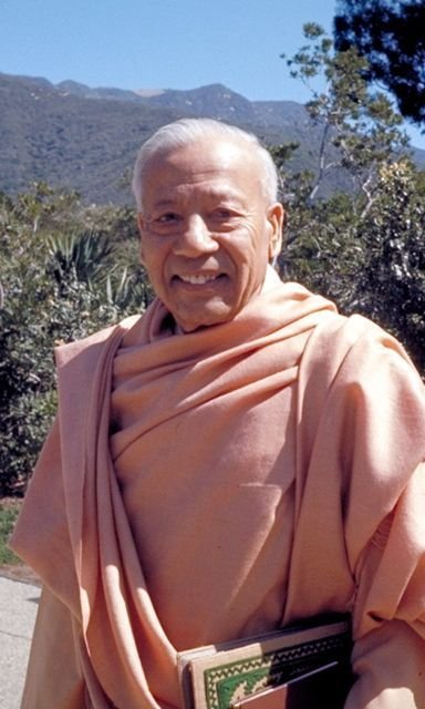 This is a picture of Swami Prabhavananda, founder of the Vedanta Society of Southern California, taken at the Santa Barbara Vedanta Temple.